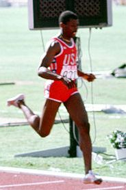 Alonzo Babers (No. 882) crosses the finish line first to win the gold medal in the 400 meter race at the 1984 Summer Olympics.